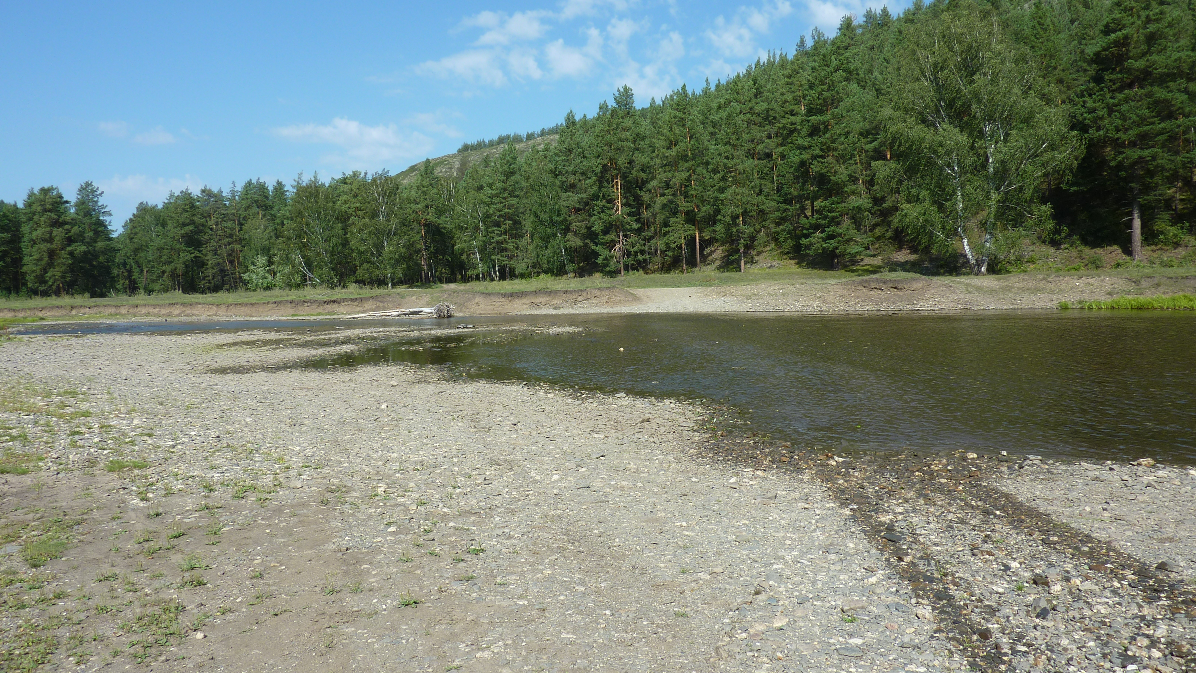 A ford across the river Kana.